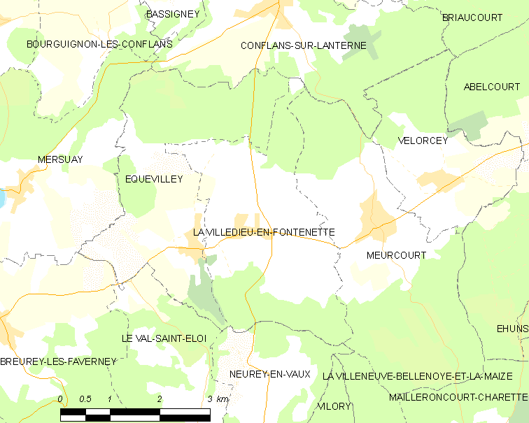 Map of French municipality